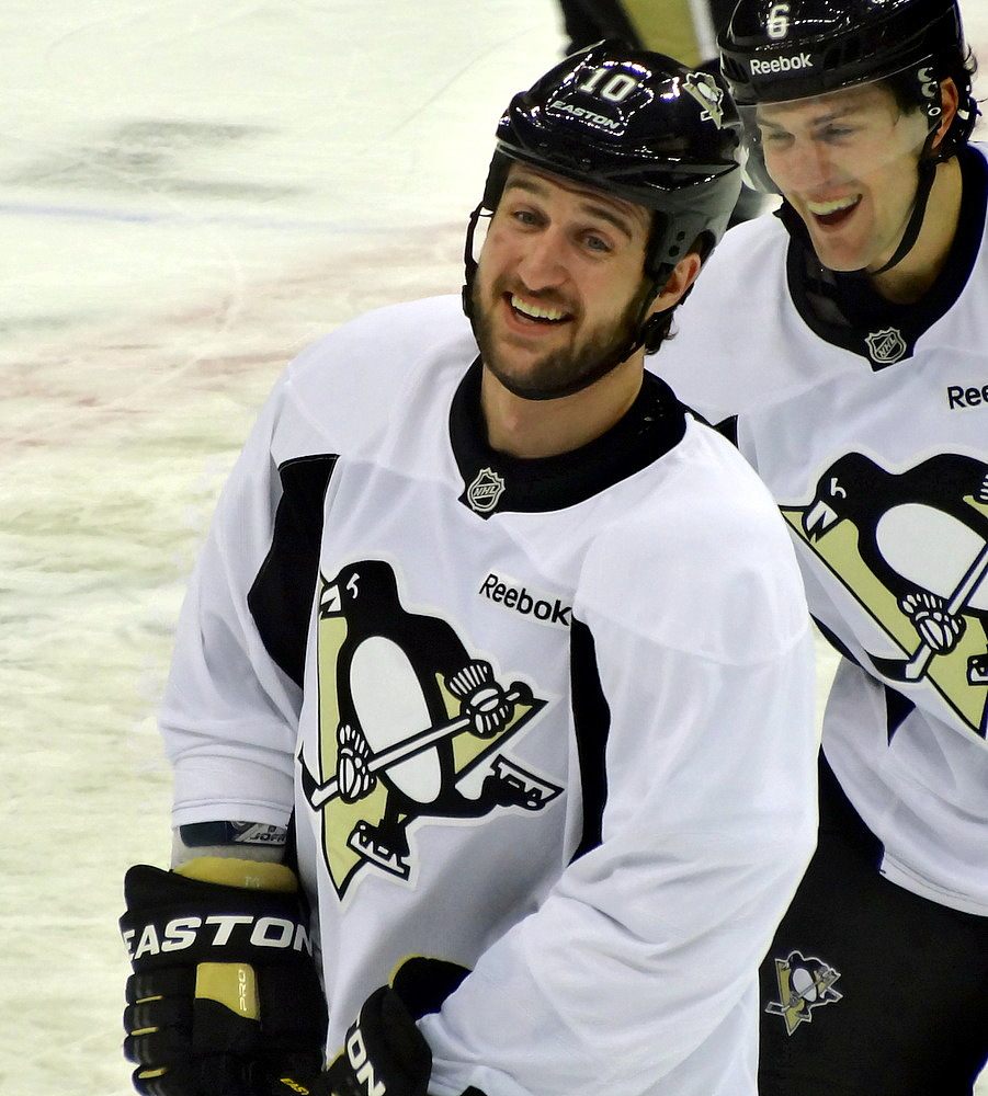 Forward Tanner Glass skates in the Pittsburgh Penguins' final practice session before the start of the lockout-shortened 2012-13 NHL season, Friday, January 18, 2013 at Consol Energy Center in Pittsburgh, PA.